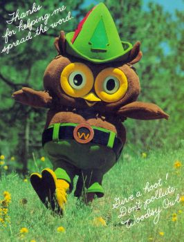 Woodsy Owl original